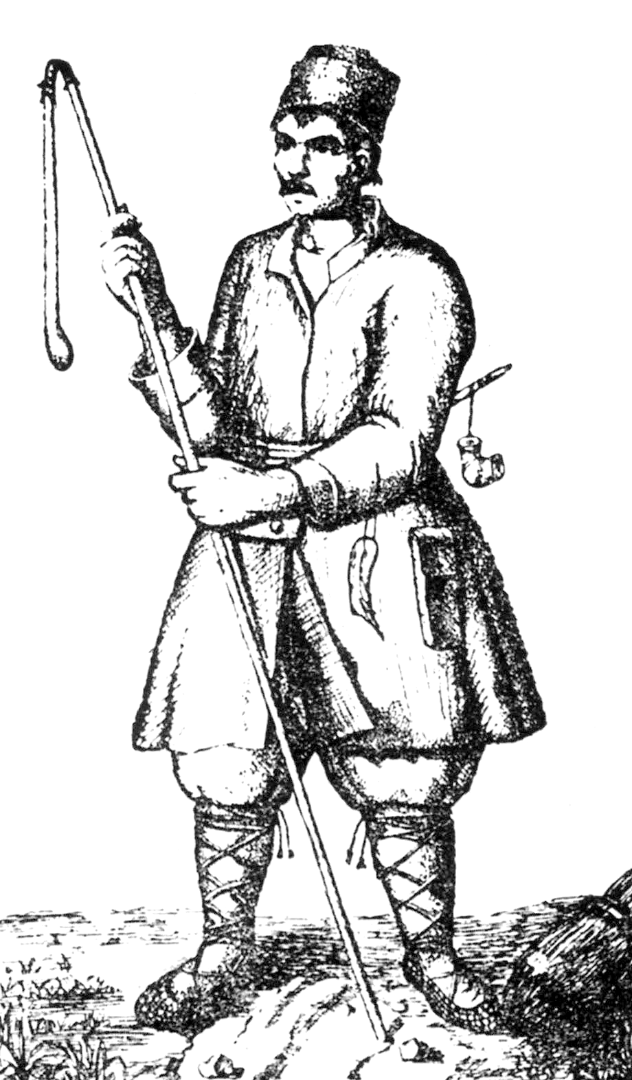 Poleszuk, drawing of the second half of the XVIII century